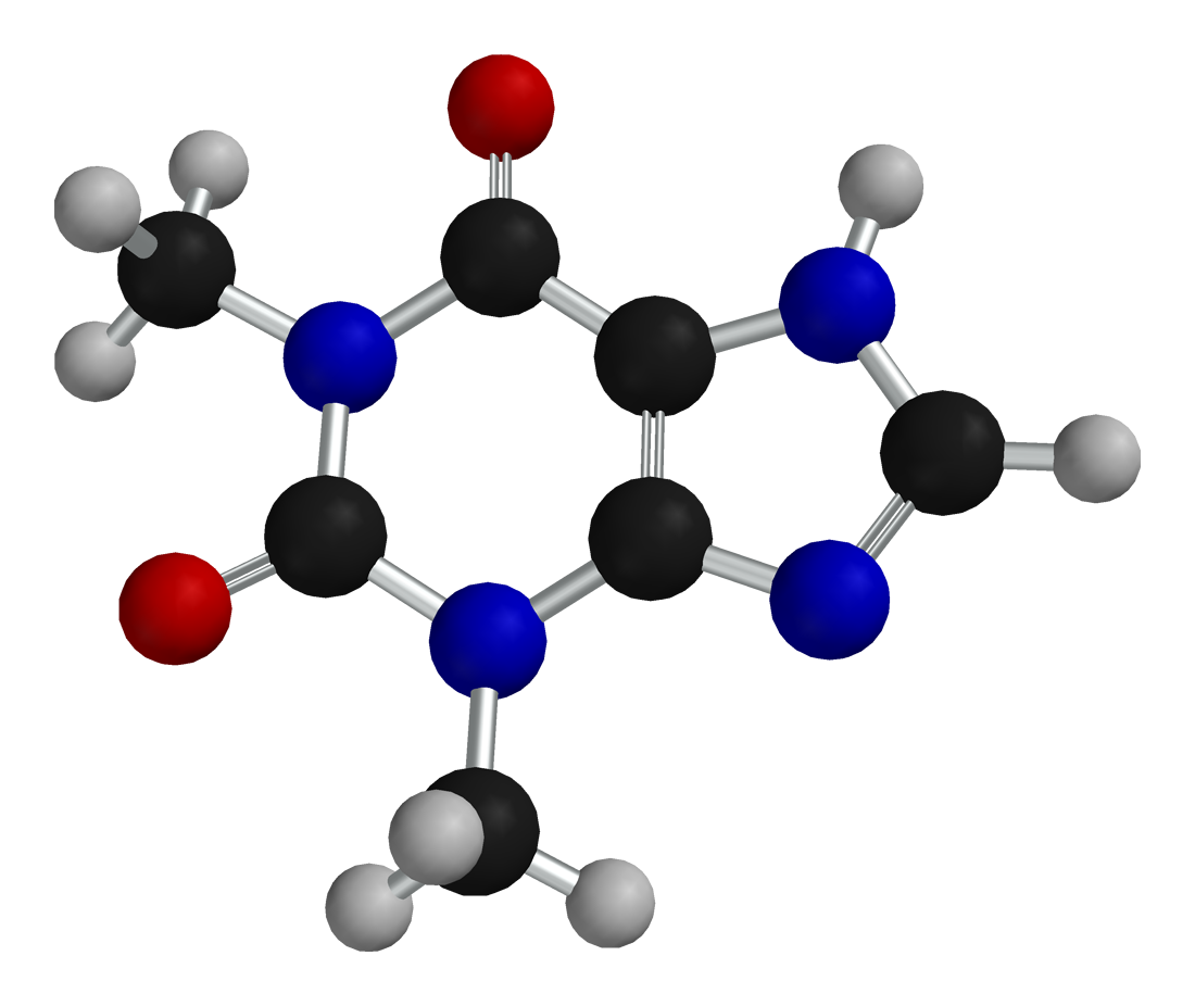 Ball-and-stick model of theophylline, generated in Spartan ST